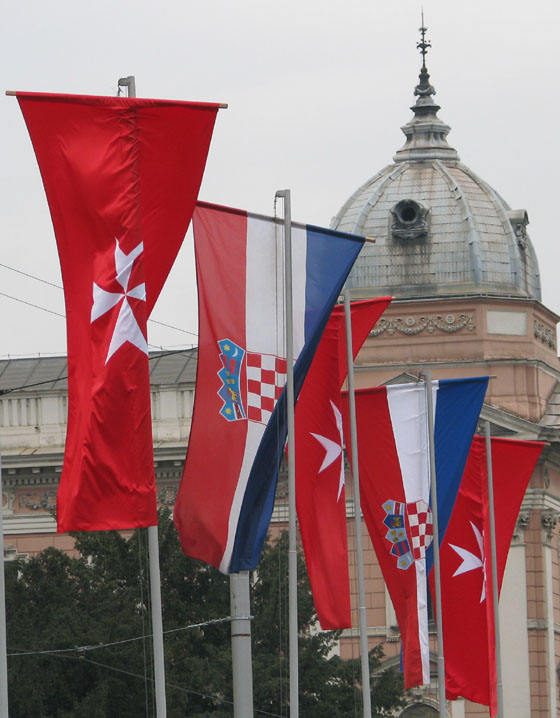 Flags of Sovereign Military Order of Malta and of Croatia in Zagreb, during the visit of Grand Master Fra' Matthew Festing to the Republic of Croatia on November 25, 2008